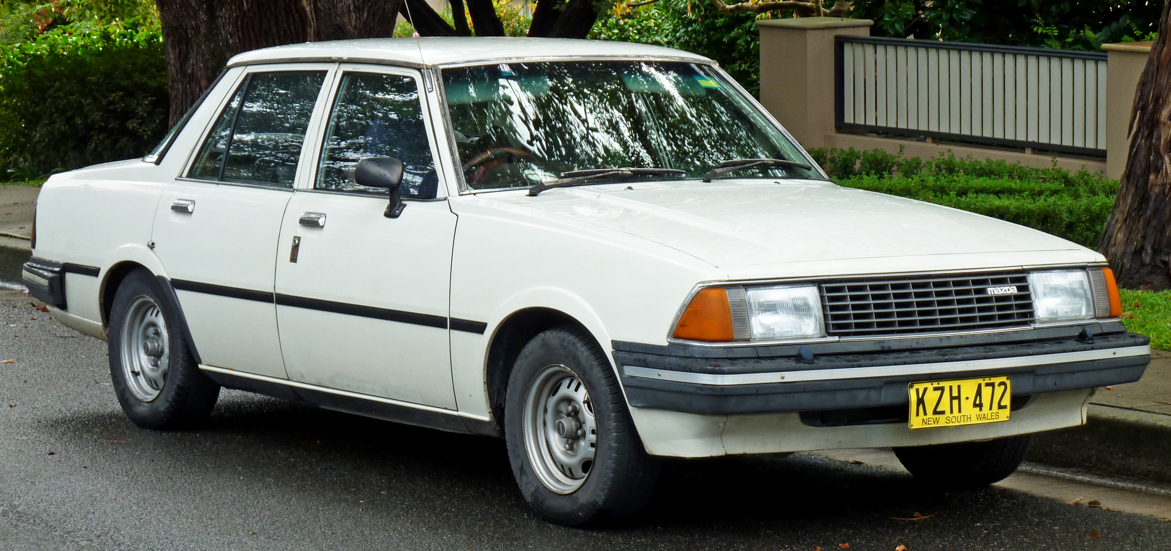 1980 Mazda 626 (CB) sedan. Photographed in Lindfield, New South Wales, Australia.